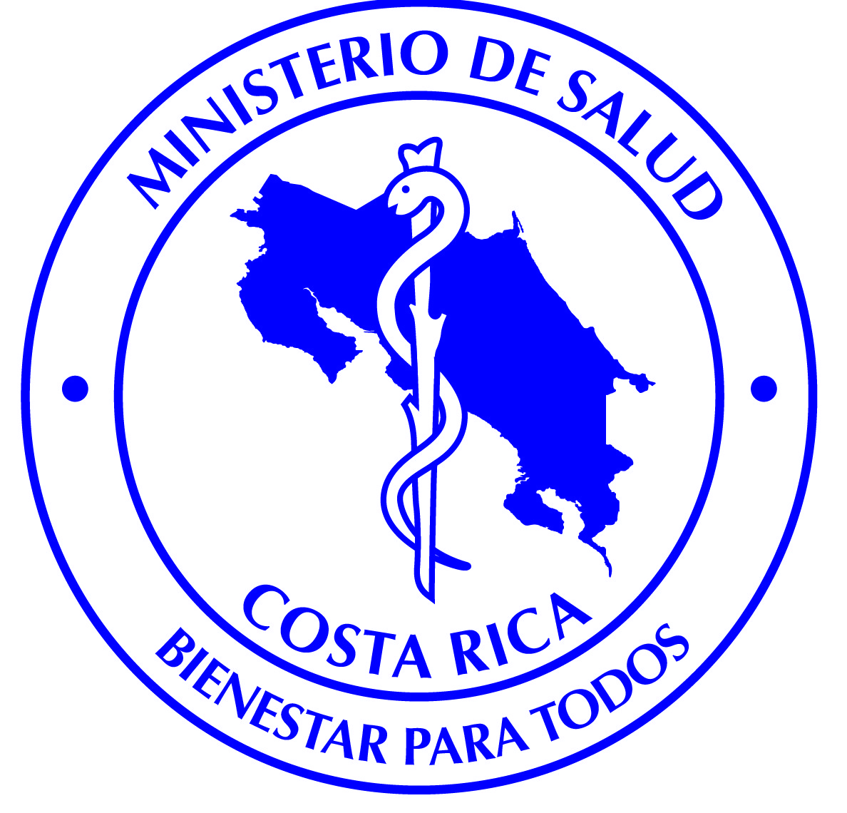 Logo Ministerio de Salud